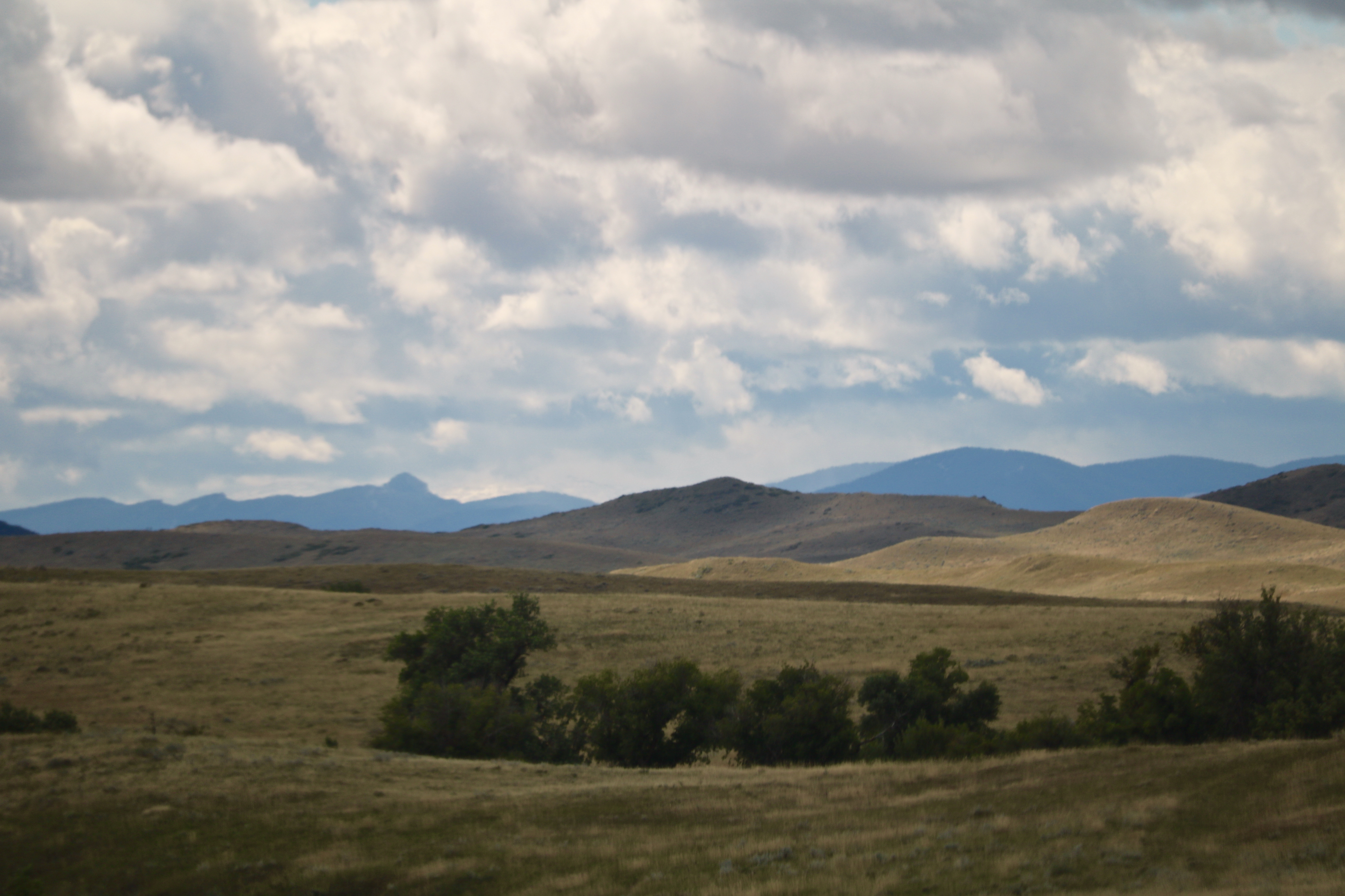 Images taken from Interstate 90 on the Crow Indian Reservation, Big Horn County, Montana, in the Crow Agency/Lodge Grass area